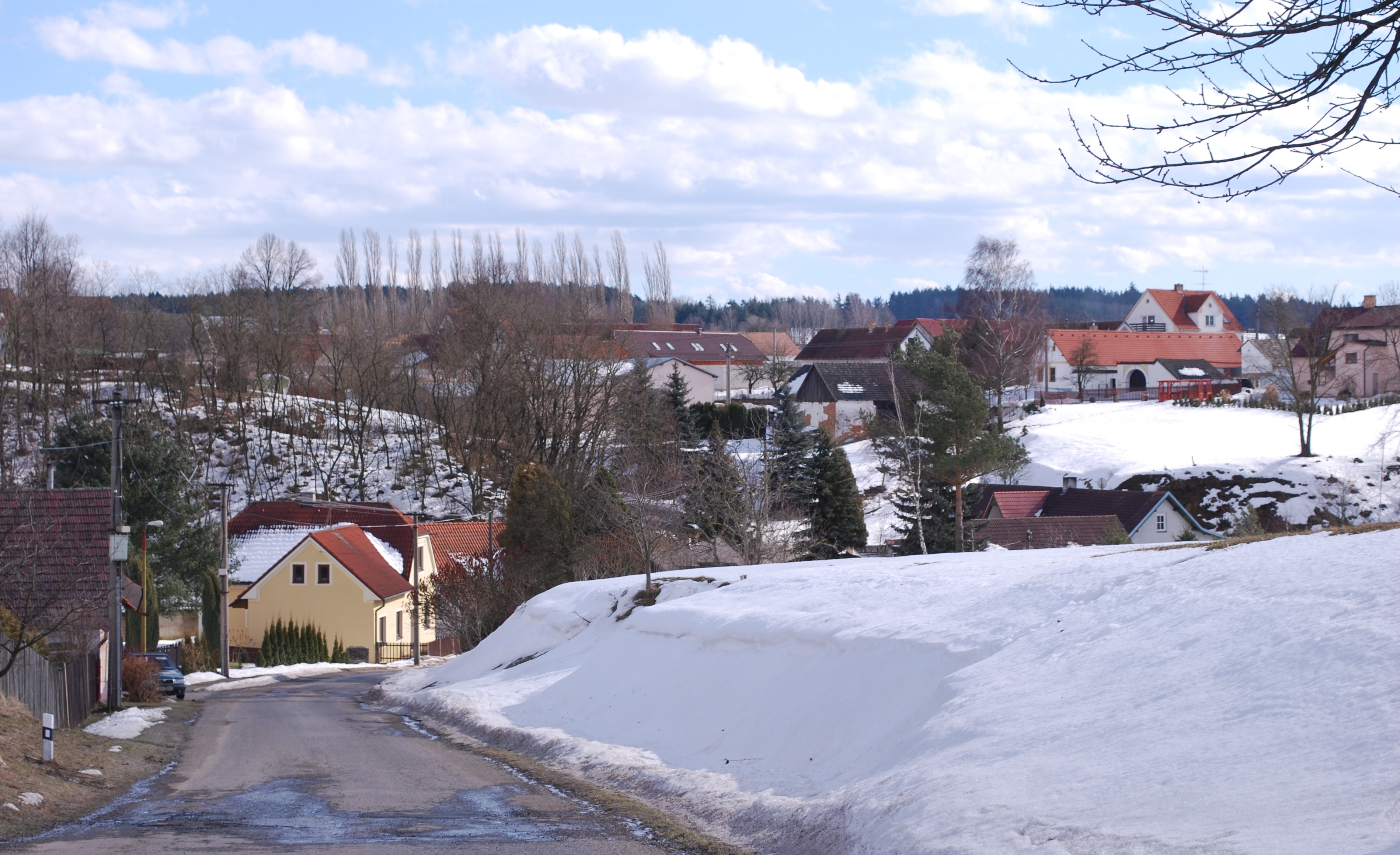 Bezděčín village, part of Želeč municipality in Tábor District, Czech Republic. This photograph was taken within the scope of the 'Czech Municipalities Photographs' grant.